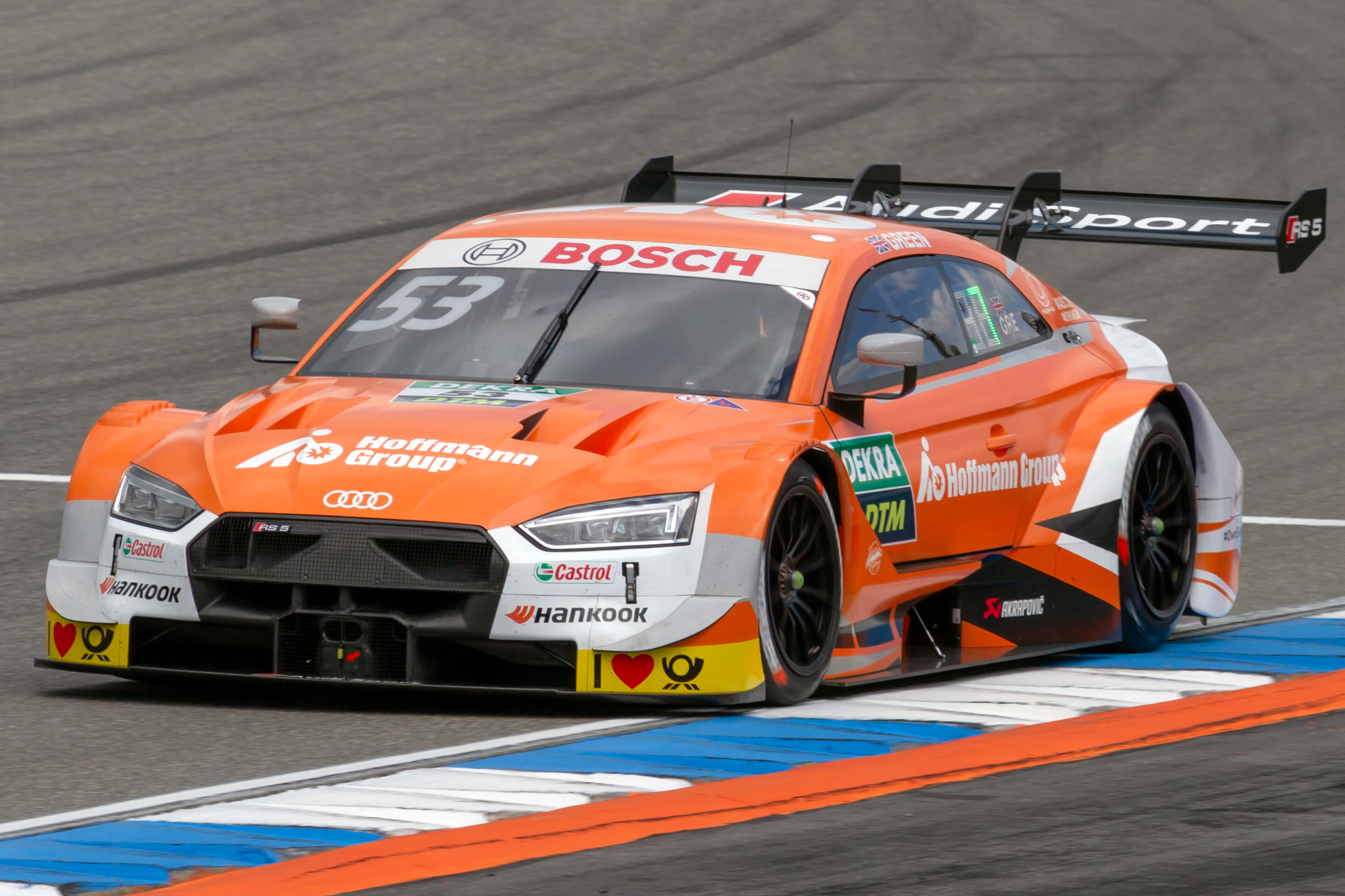 2019 DTM Hockenheimring (May): Audi RS5 Turbo DTM of Jamie Green